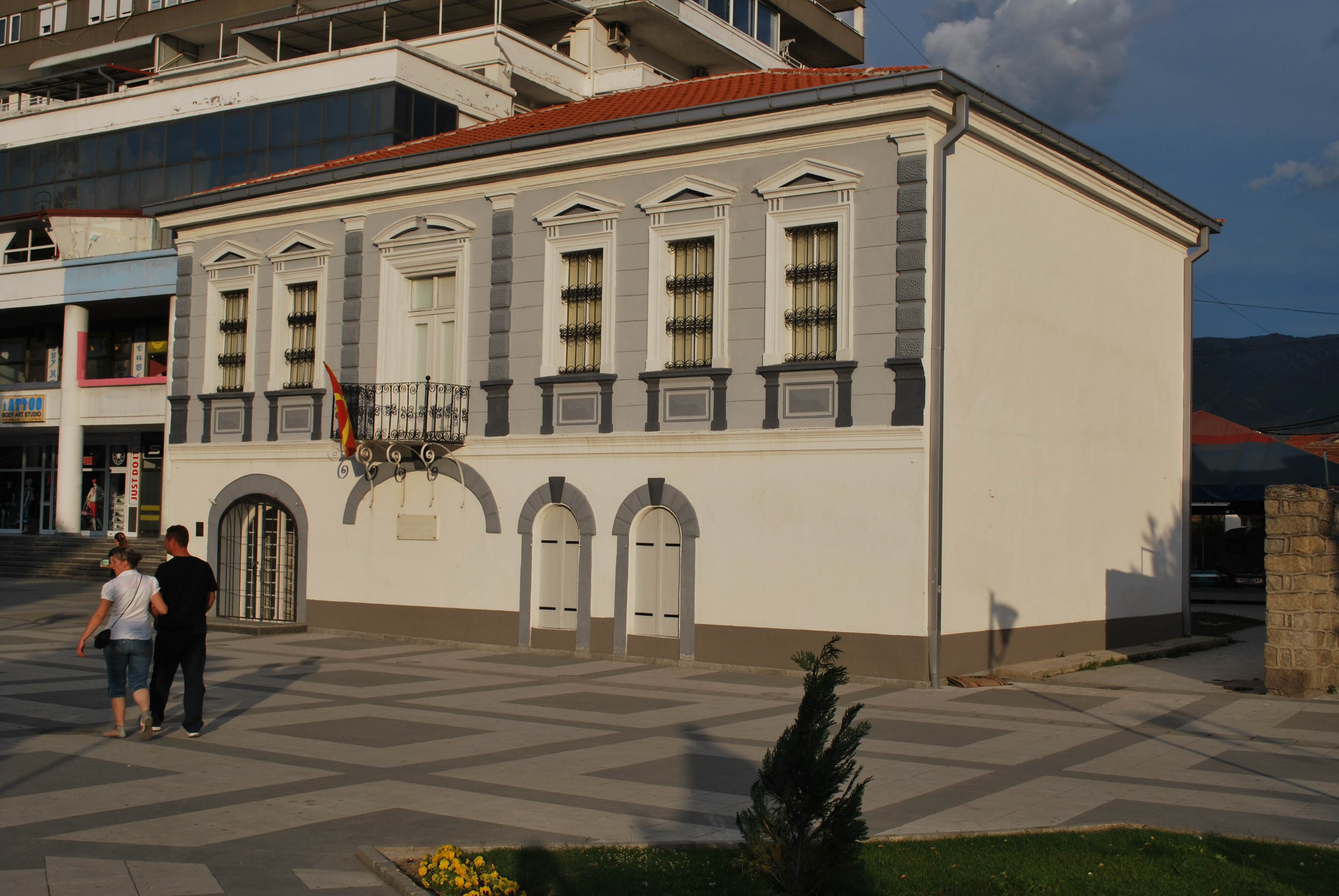 Prilep, Macedonia